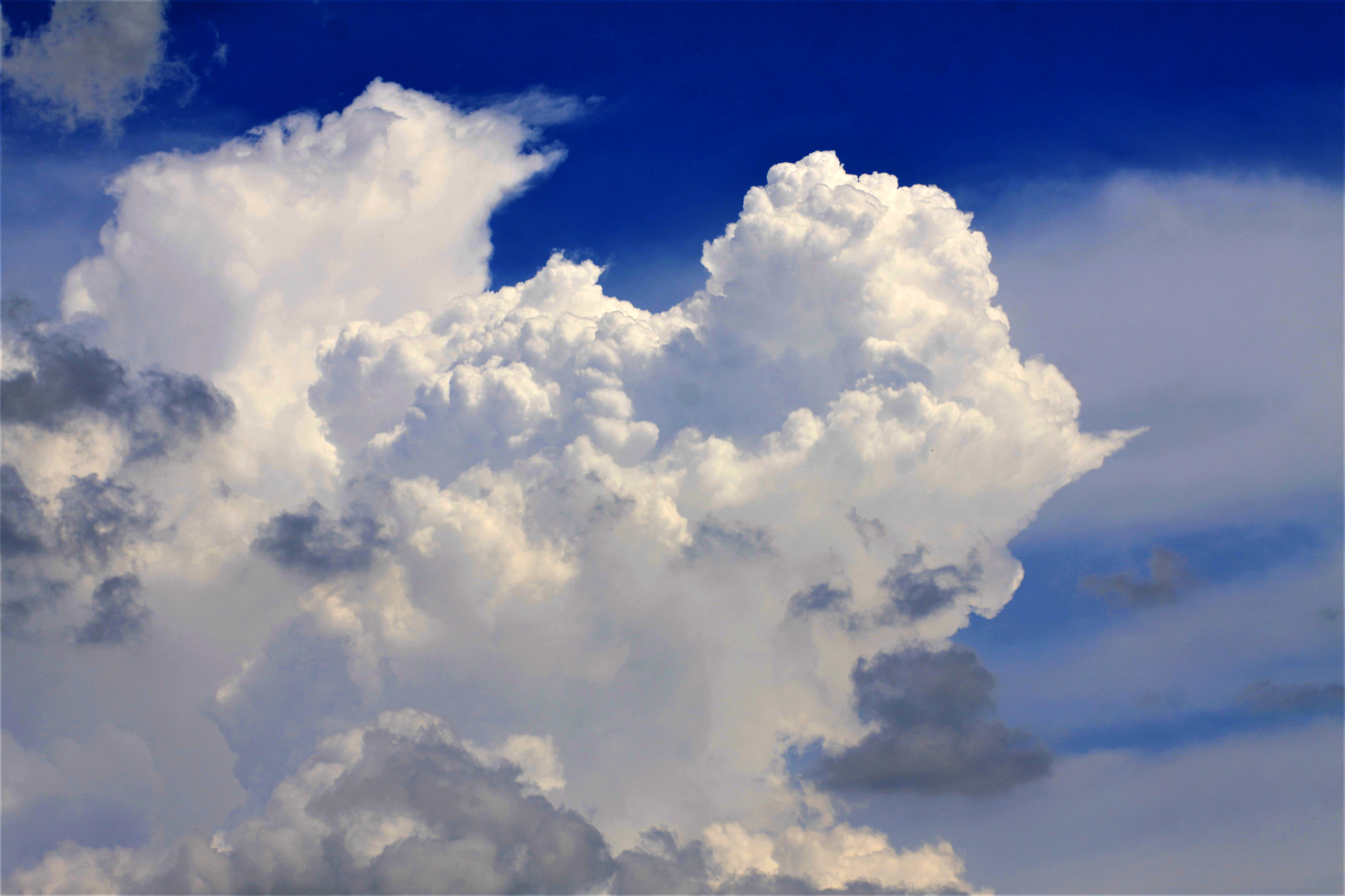 ท้องฟ้าและก้อนเมฆ ที่ อุทยานแห่งชาติต้นสักใหญ่